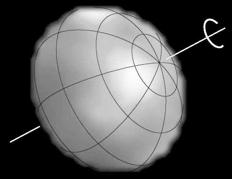 Image of the rapidly rotating star Altair, made with the MIRC imager on the CHARA Array on Mt. Wilson.